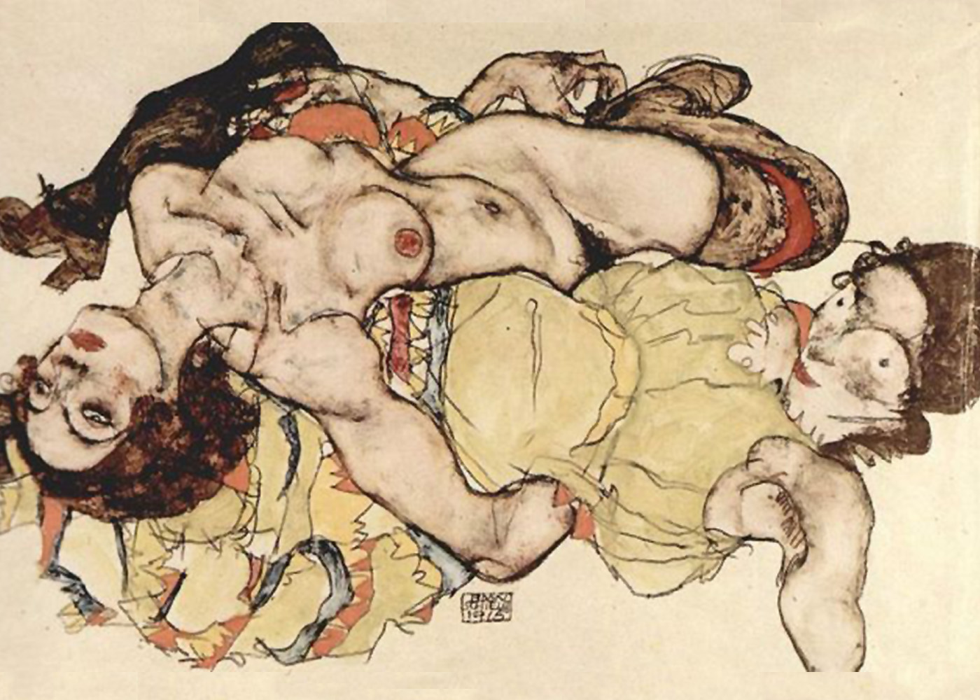 Two Women.